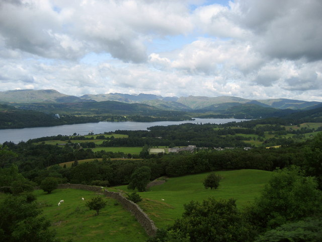 View North West from Orrest Head The view looks over the northern end of Lake Windermere towards the Central Fells - with the Langdale Pikes particularly dominant. Orrest Head offers incredible panoramas for the minimum of effort.